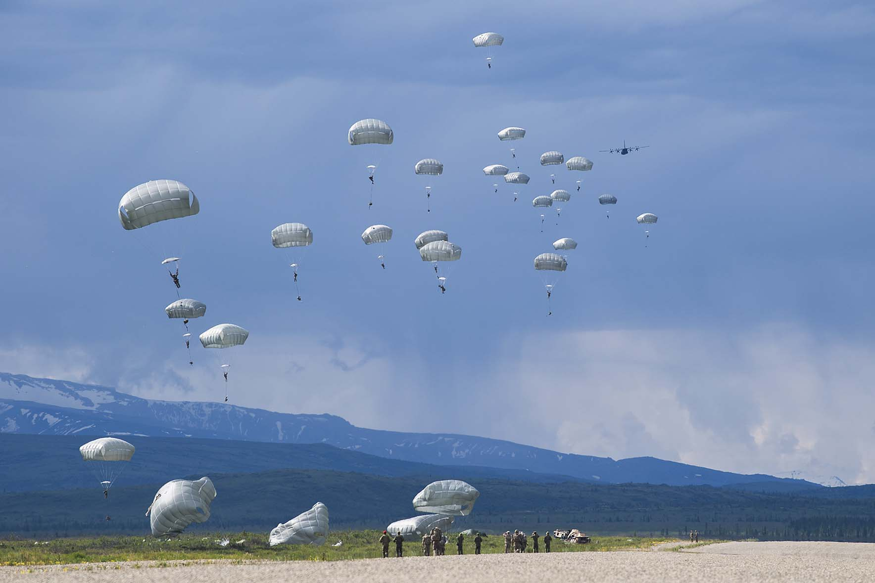 Members from the U.S. Army 377th Parachute Field Artillery Regiment complete a static line jump from a U.S. Air Force C-130 Hercules during RED FLAG-Alaska, June 13, 2019, at Donnelly Drop Zone near Fort Greely, Alaska. RF-A is an annual U.S. Pacific Air Forces field training exercise for U.S. and international partners to enhance combat readiness of participating forces. (U.S. Air Force photo by Airman First Class Taylor Phifer)